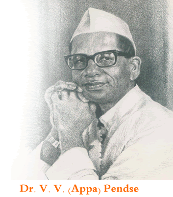 Portrait of Dr. V. V. (Appa) Pendse